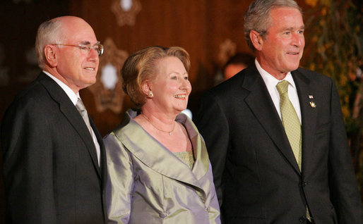 Prime Minister of Australia John Howard, Janette Howard, and President George W. Bush after arriving at the Sydney Opera House on Saturday, Sept. 8, 2007, for the APEC dinner.